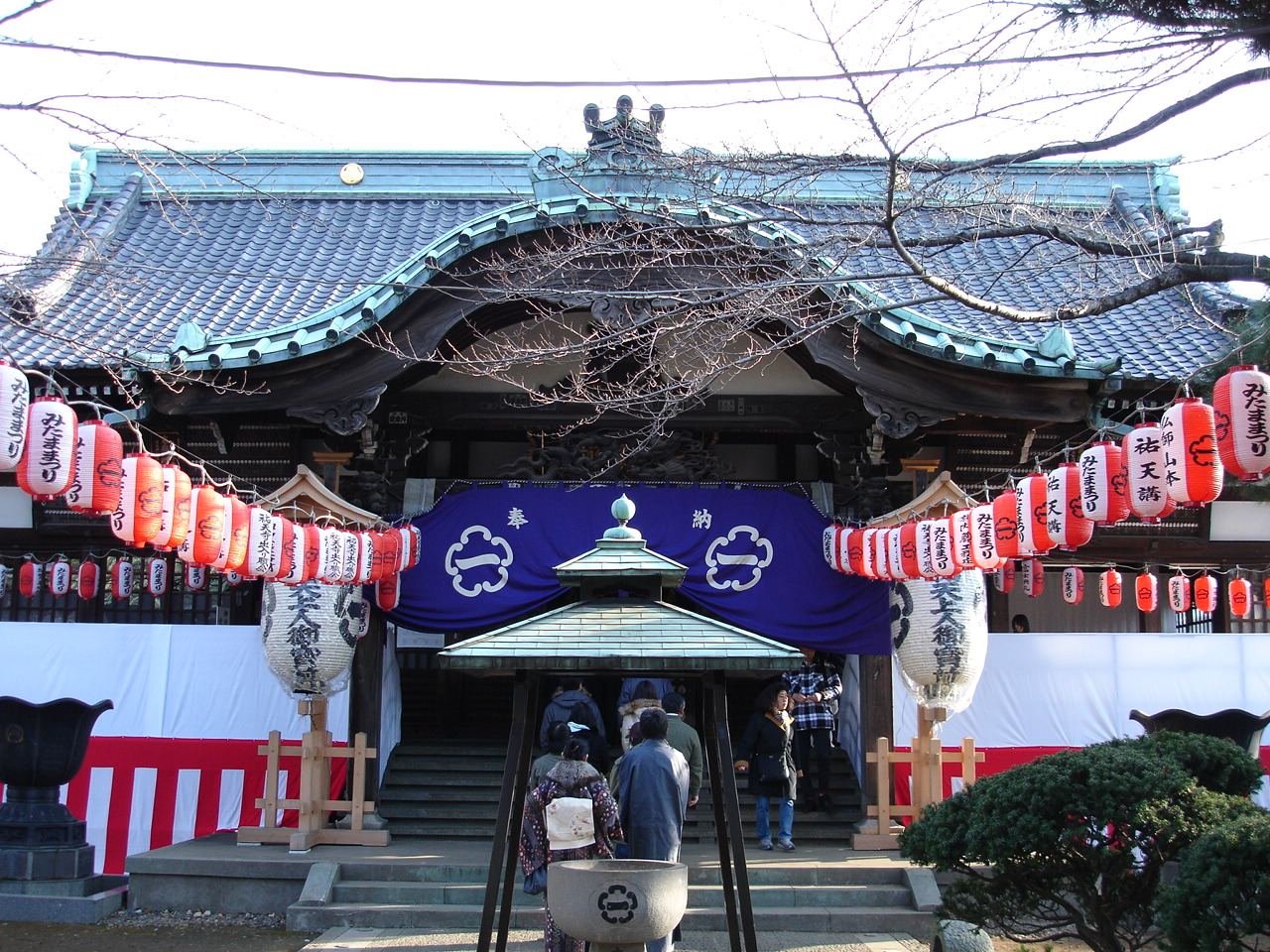 New Year's Shrine Visit, Yutenji